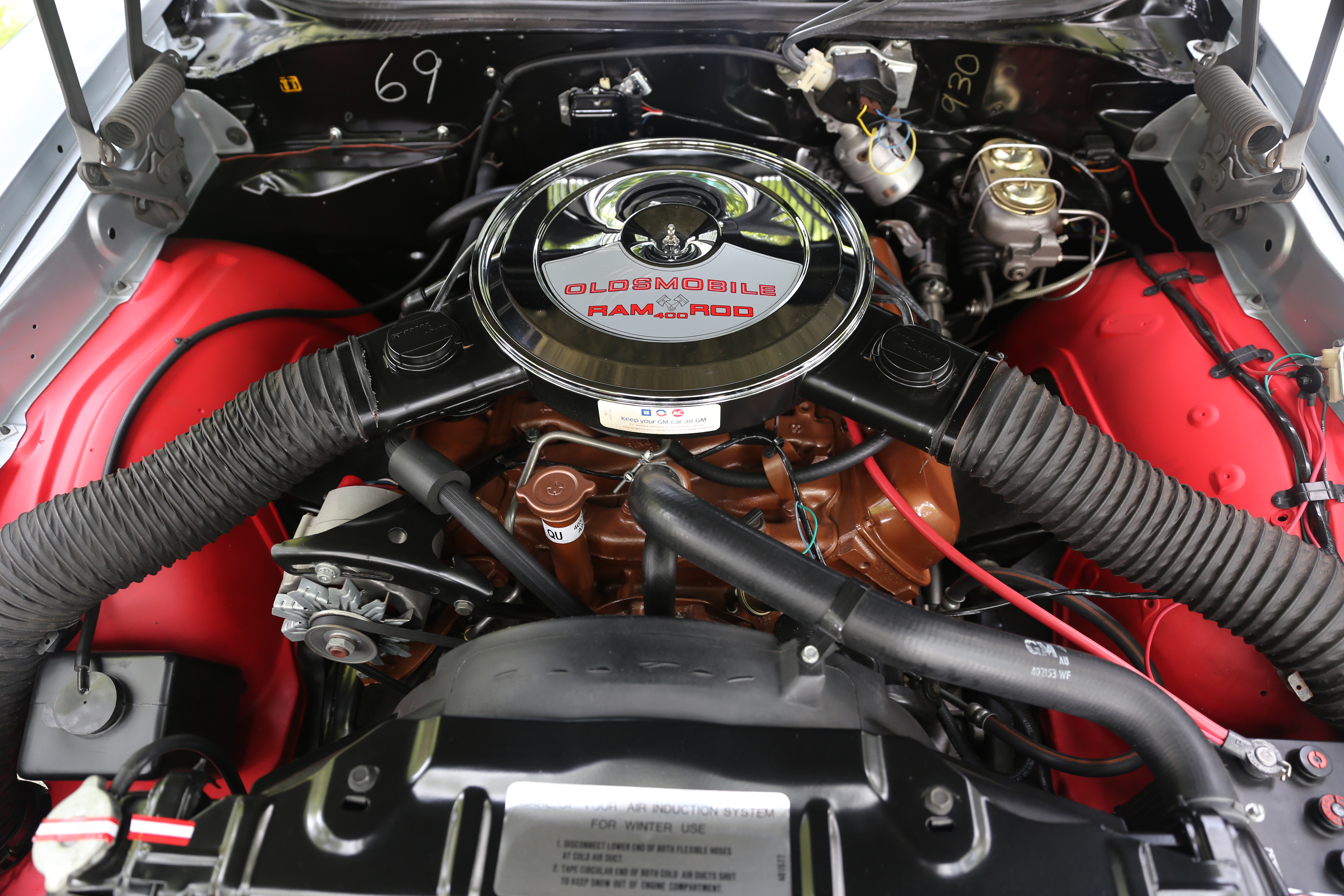 A 1969 Oldsmobile 442 Convertible with the W-30 option package. This is the 400ci V8 "Ram Rod 400" engine under the hood.